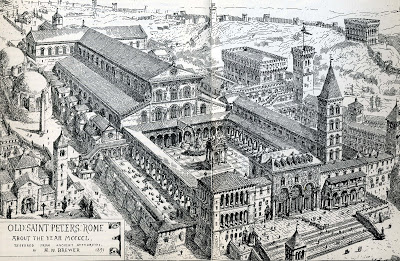 Old St. Peter's; 19thc reconstruction